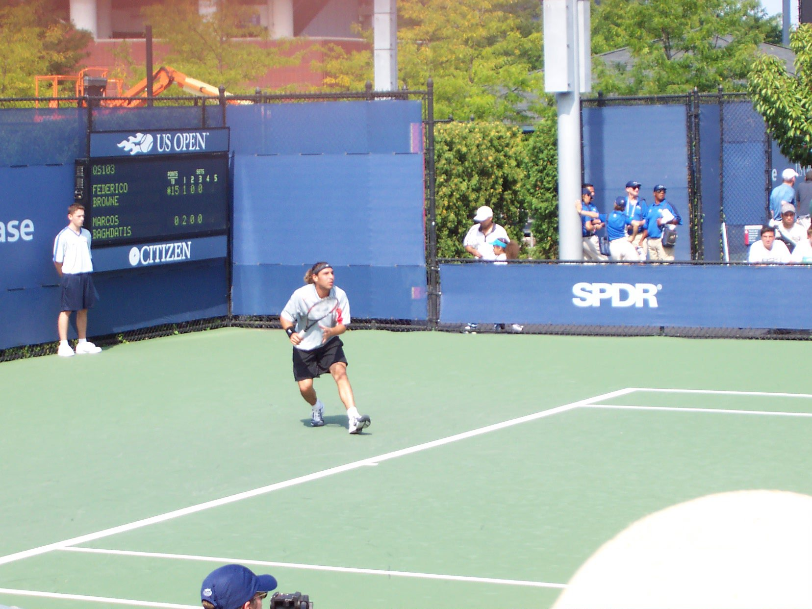 Marcos Baghdatis playing at the 2004 U.S. Open qualifying.